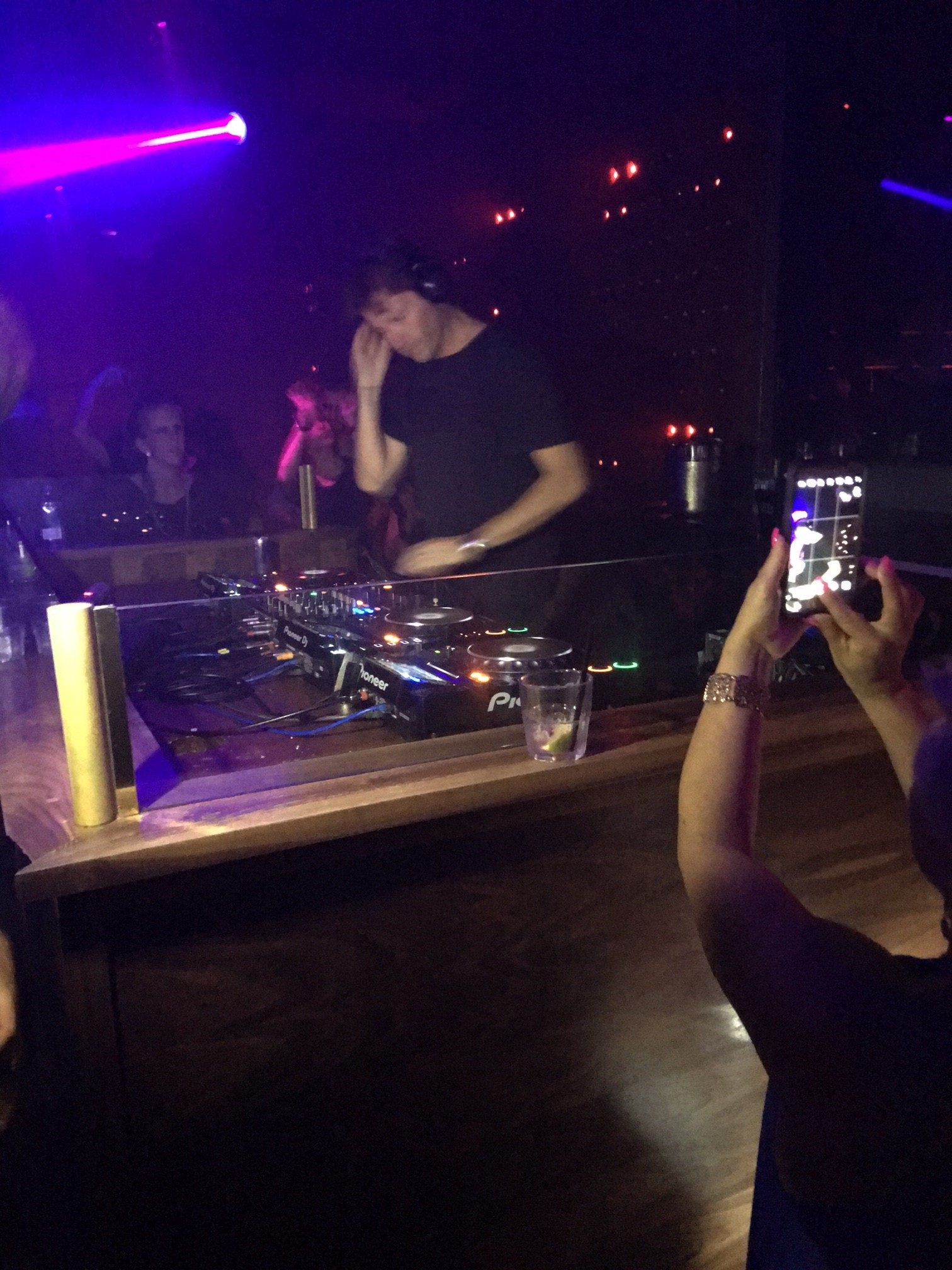 Mr. Cattaneo in San Francisco, CA